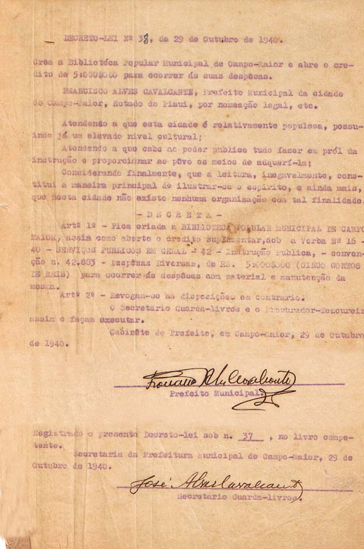 Legal document creating the Public Library of Campo Maior, Piaui, in 1940.